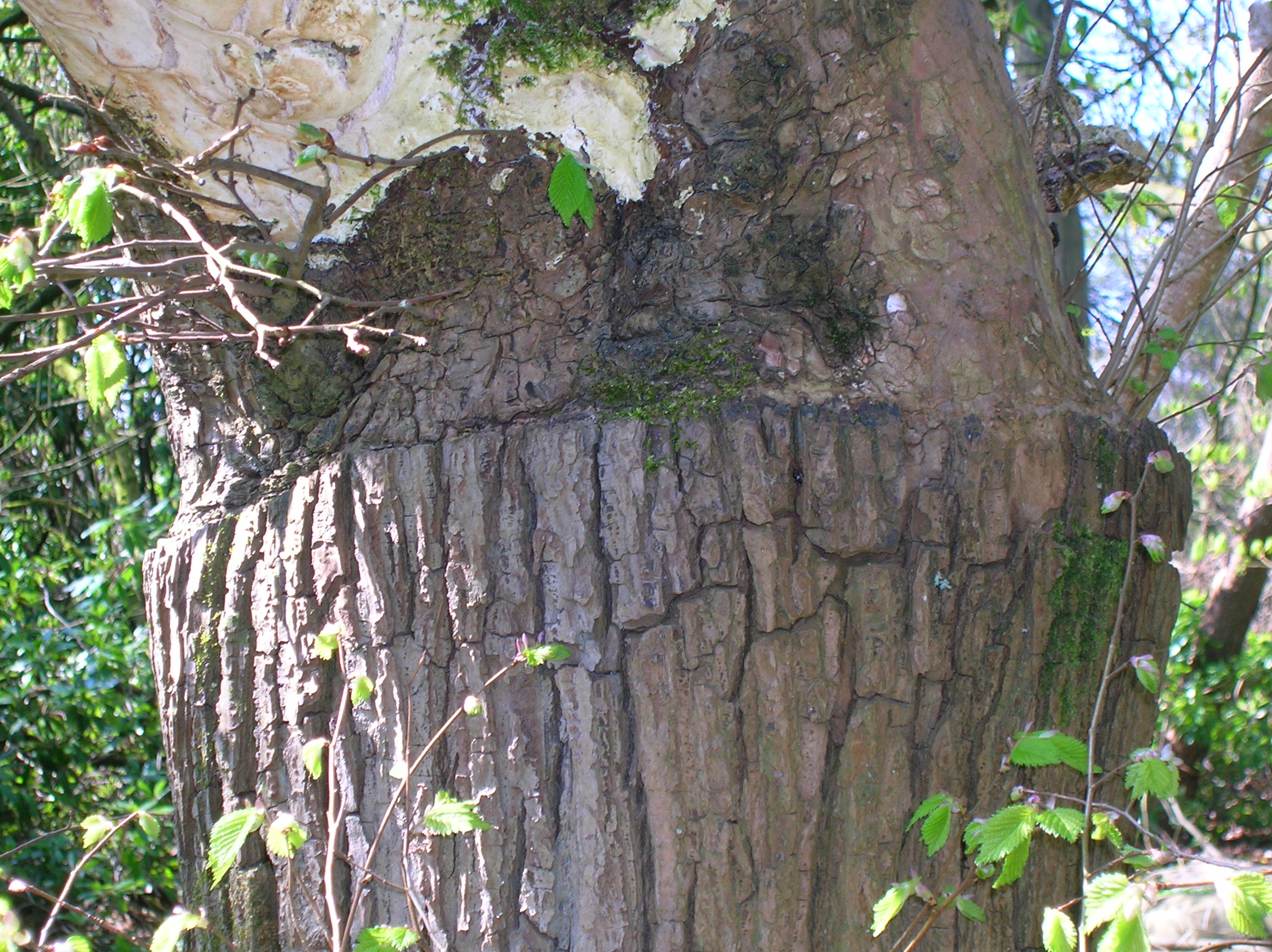 Pendulous elm graft. Spier's Old School Grounds, Beith, Ayrshire, Scotland.